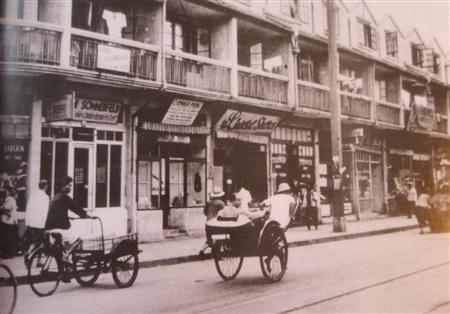 Street in the shanghai ghetto area.